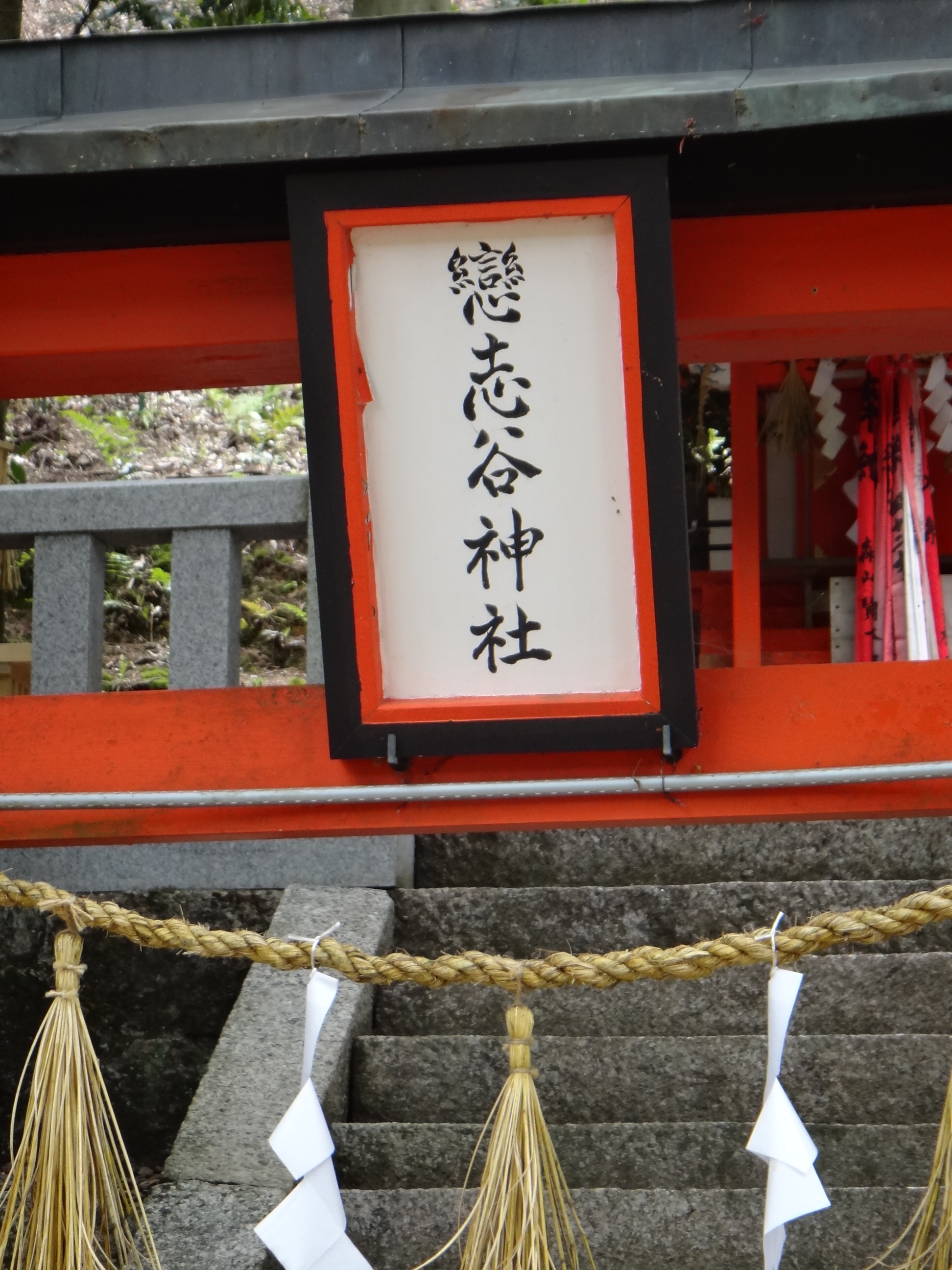 koijidani-jinjya-Shinto shrine